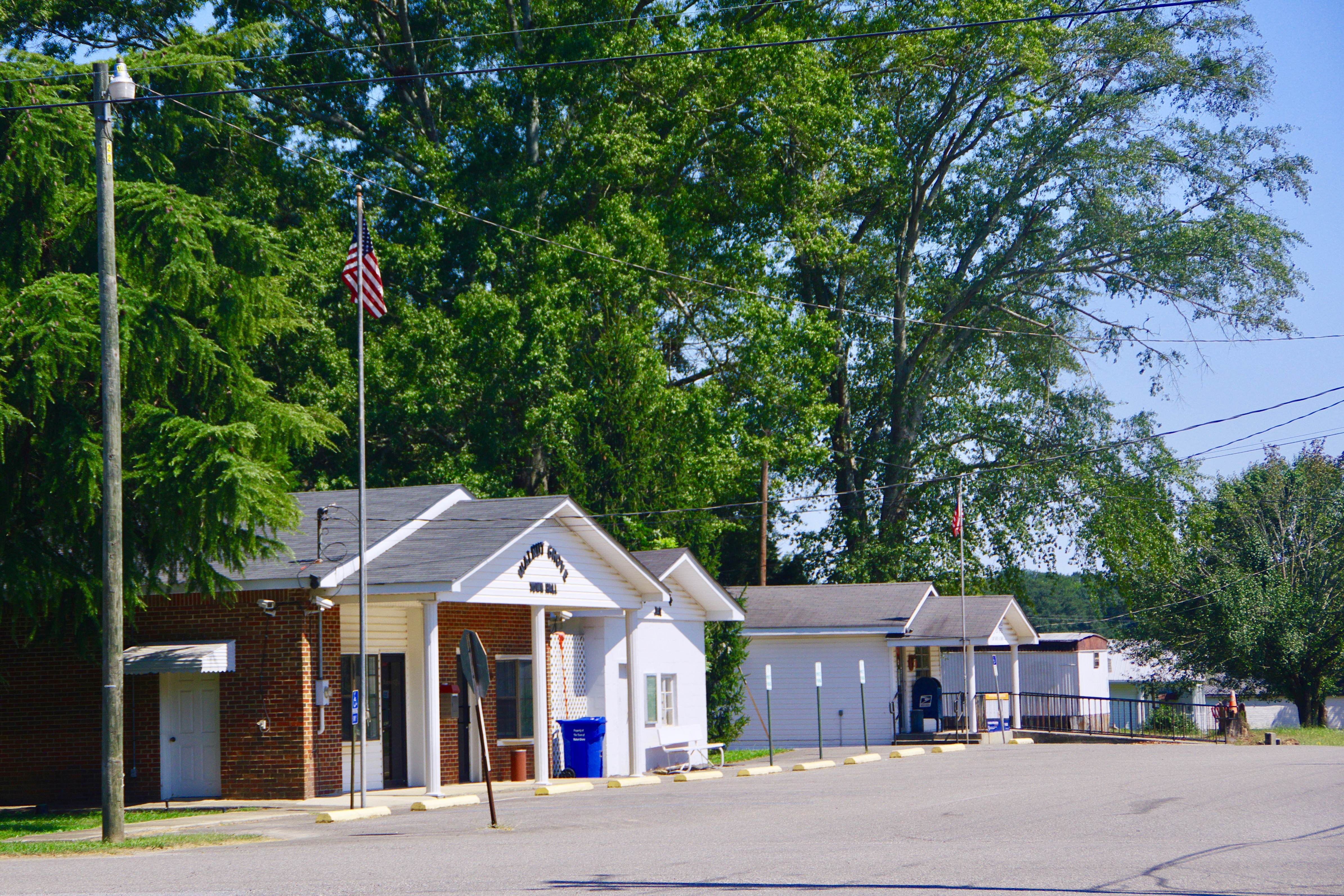 Town Hall (left) and other buildings along Gadsden-Blountsville Road in Walnut Grove, Alabama, United States.